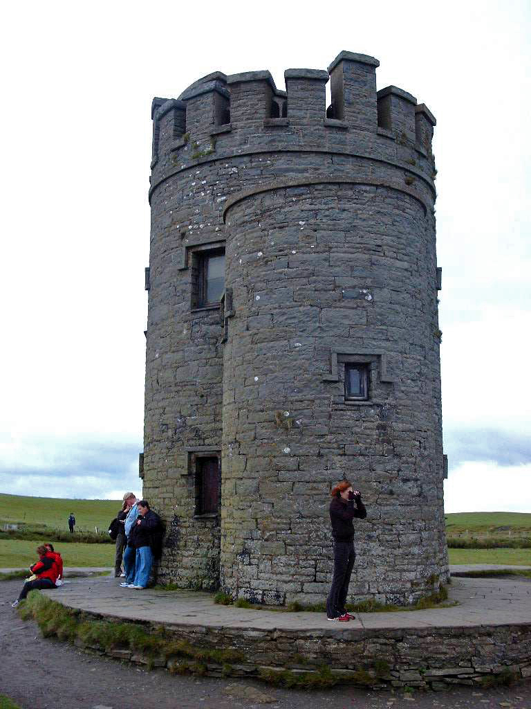 O'Brien's Tower (Cliffs of Moher, Irland)